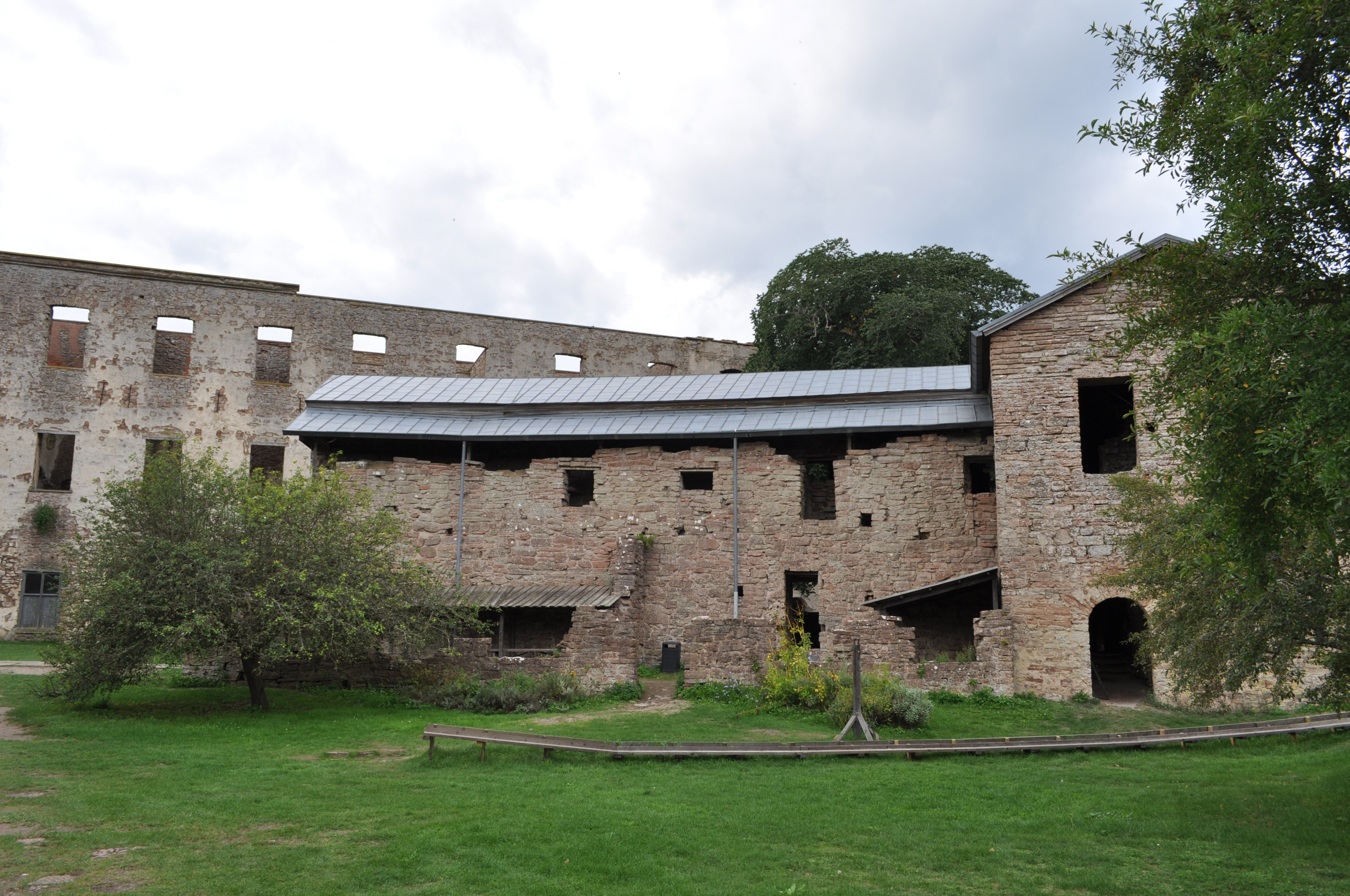 Borgholms slottsruin